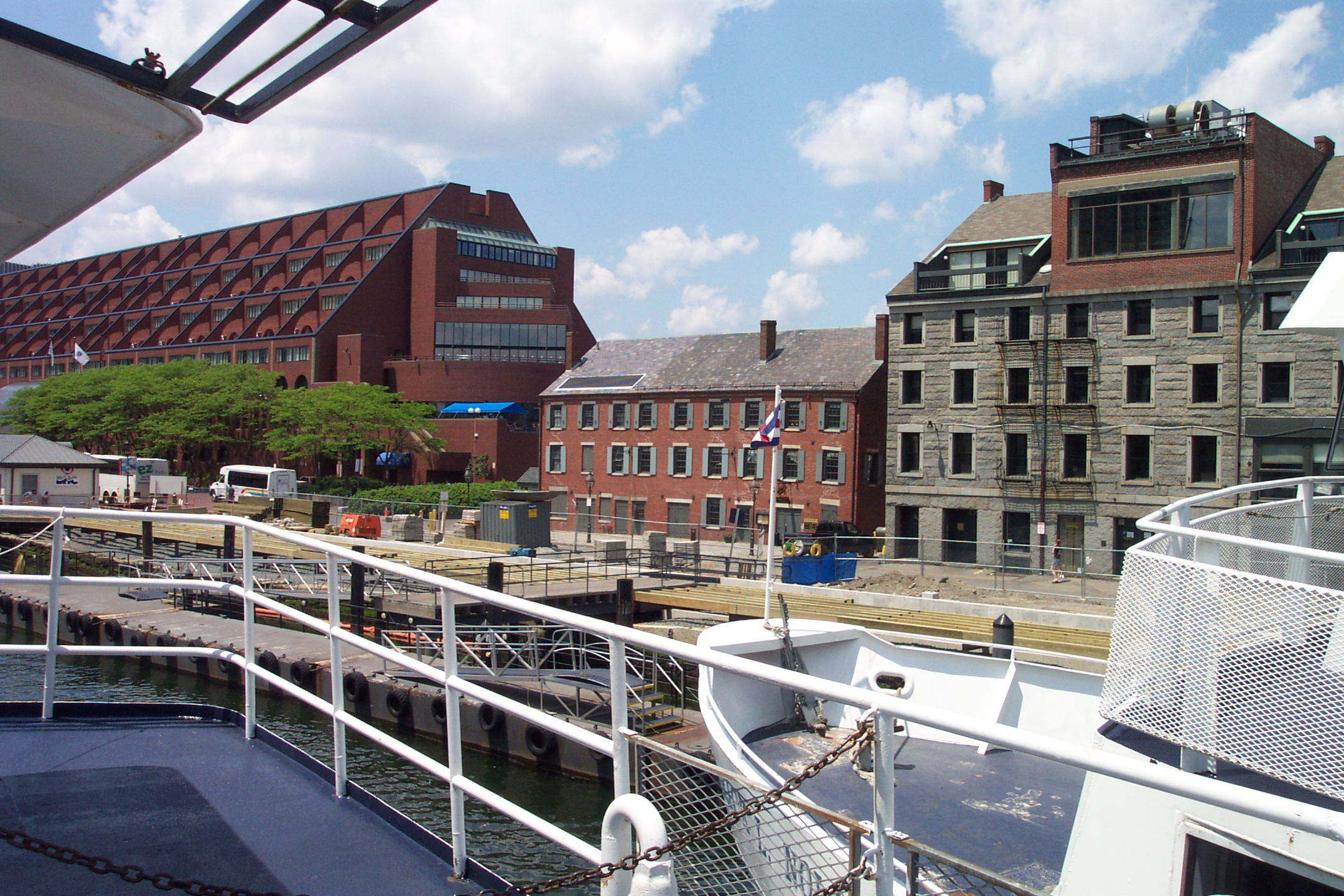 Gardiner Building (center) and Marriott Hotel (left) on Long Wharf in Boston. For more information see the Wikipedia article Long Wharf (Boston).